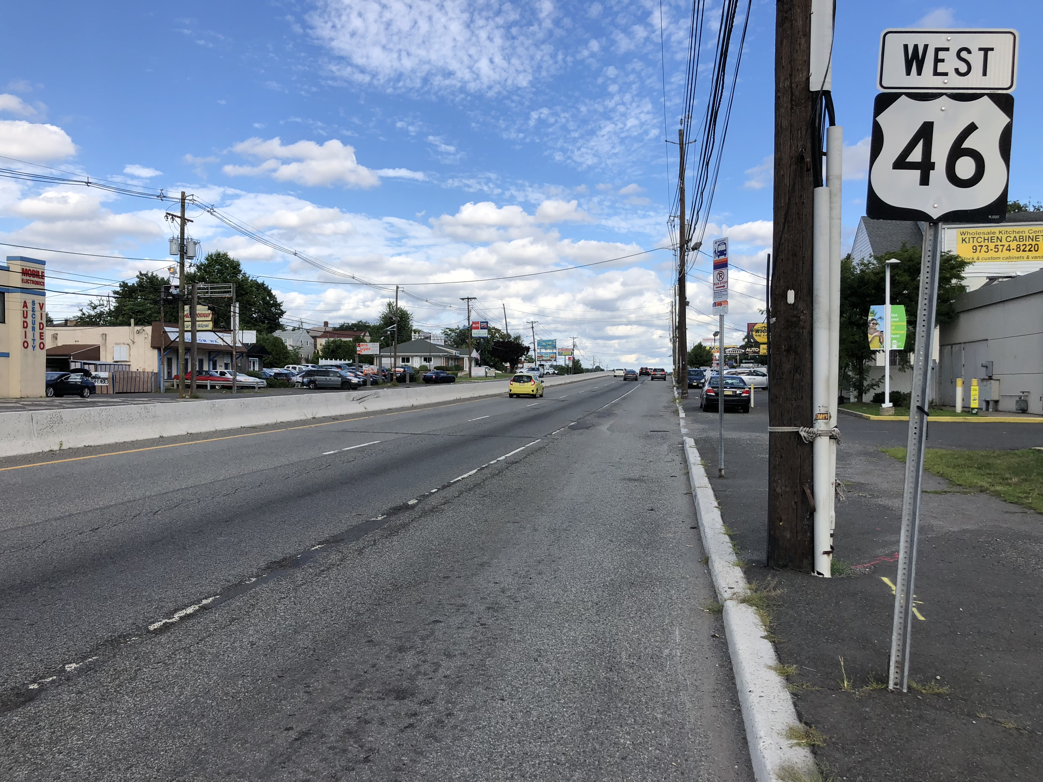 View west along U.S. Route 46 just west of Savoie Street in Lodi, Bergen County, New Jersey